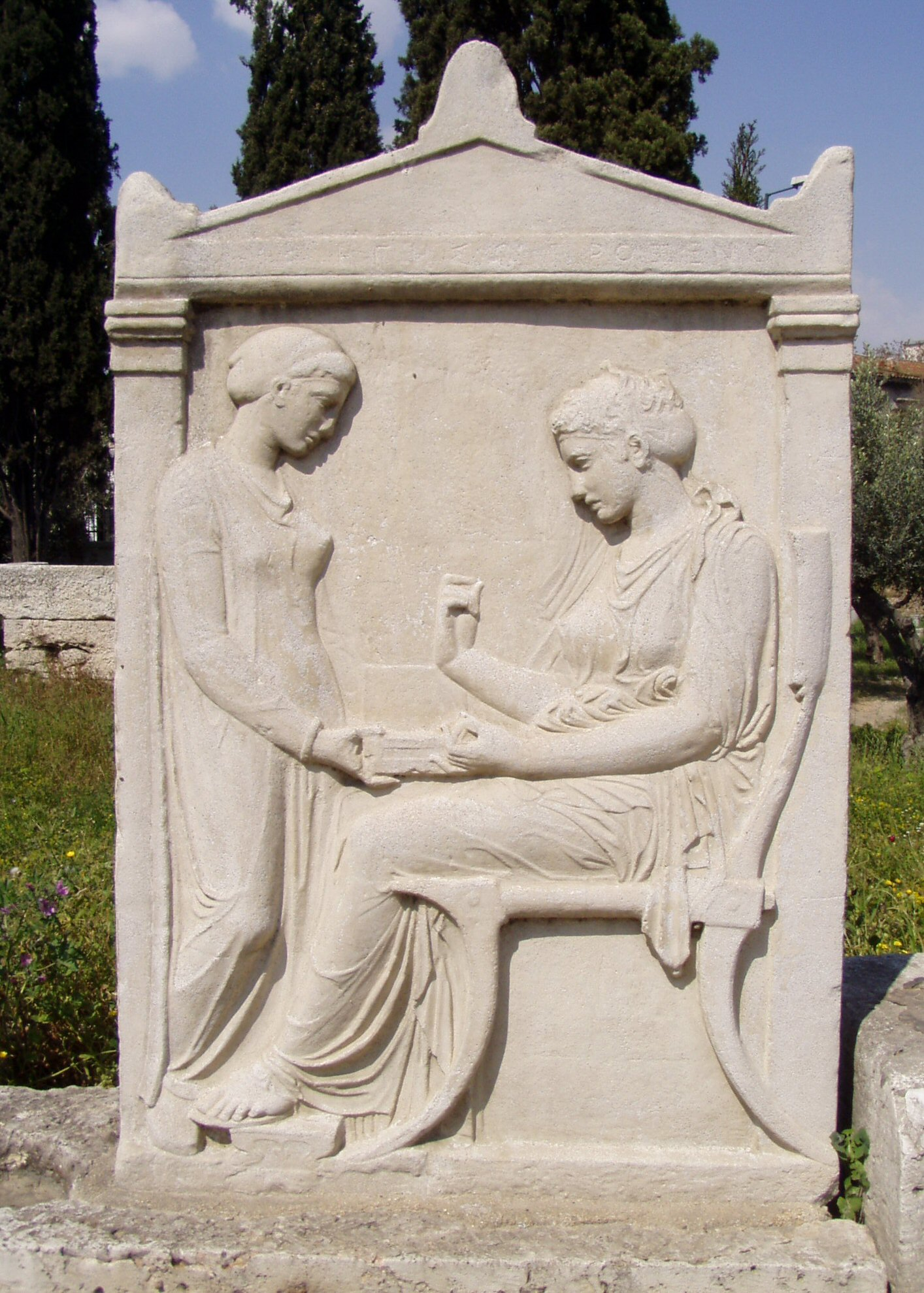 Modern copy of the funerary stele of Hegeso, on the Kerameikos in Athens.